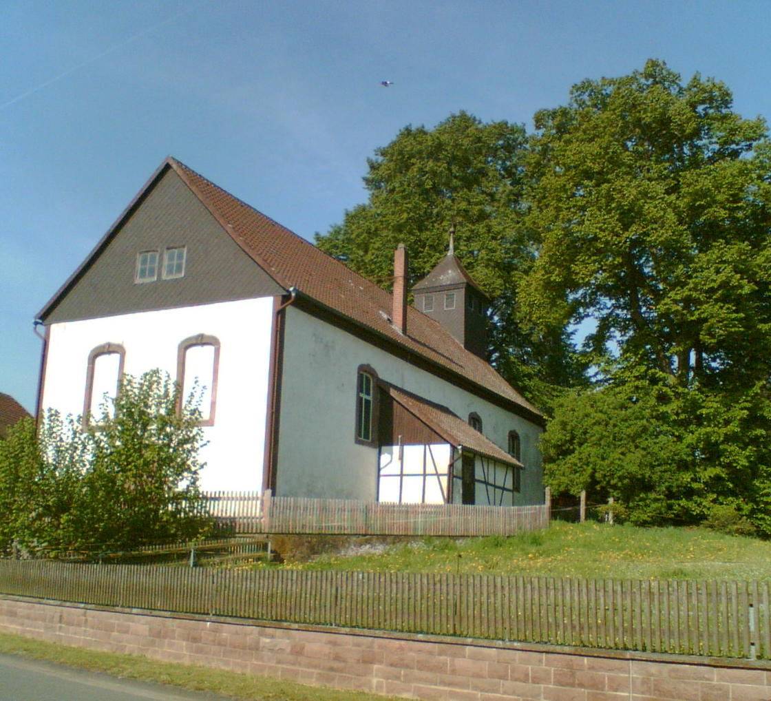 church in Ellensen Germany